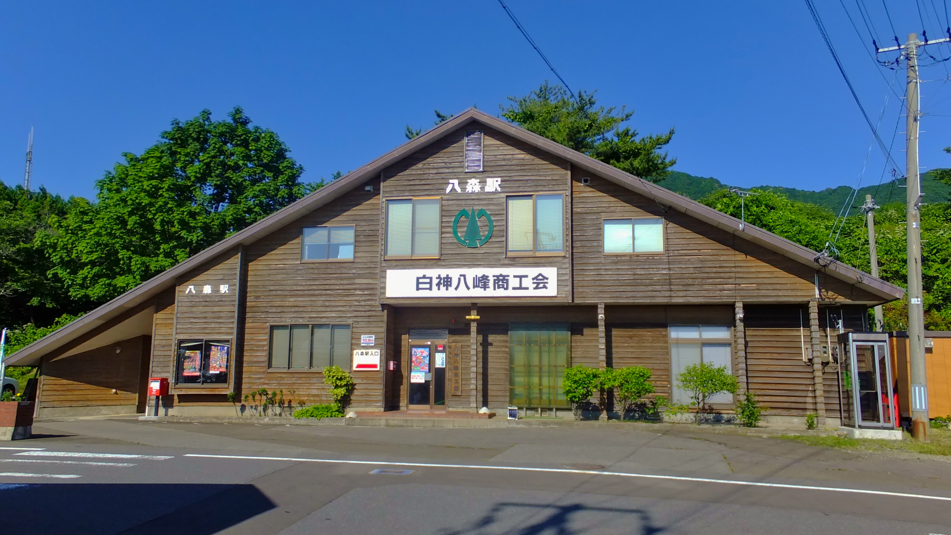 Hachimori Station on the Gonō Line, in Happo Town, Akita, Japan